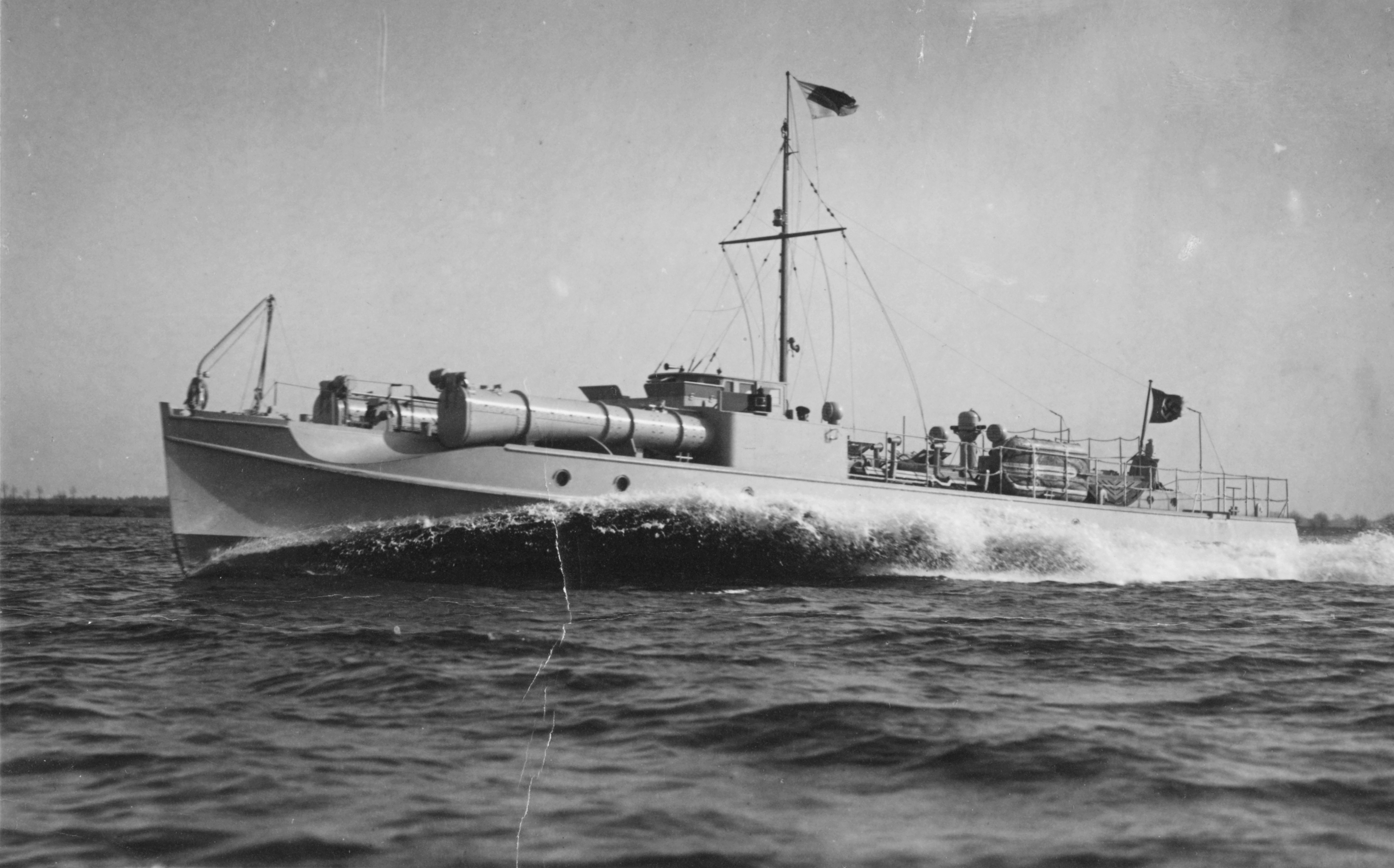 A German Motor Torpedo Boat (Schnellboot) underway at speed prior to 1939. It appears to be one of the series S 6 to S 25, built 1932-39. This might be a builder's photo because of the lack of a naval pennant number on the bow and what appears to be a house flag at the foretopmast head.